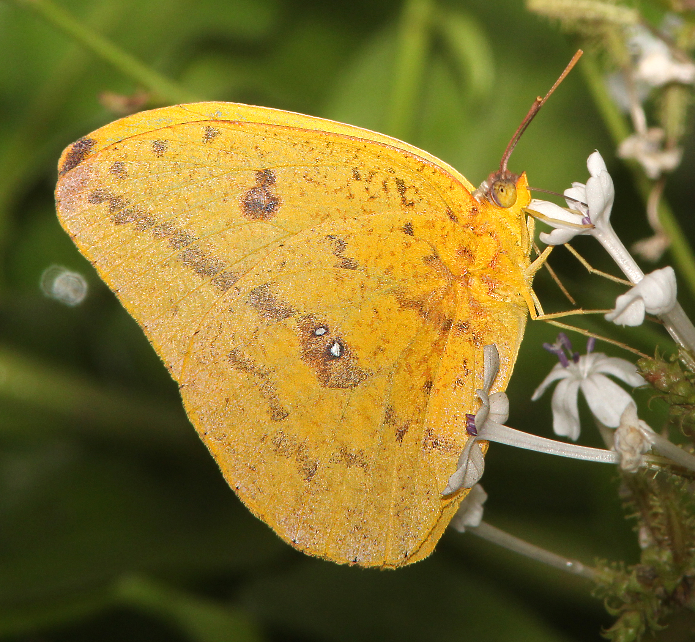 Butterflies of North America